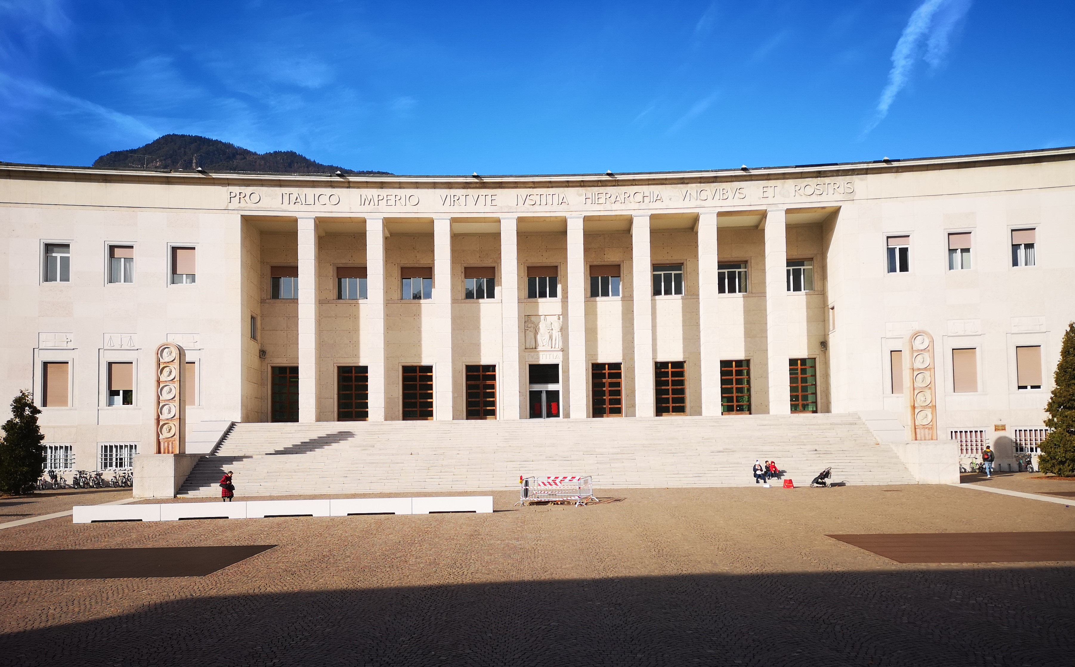 Courthouse in Bozen-Bolzano, South Tyrol, erected in 1939-1956